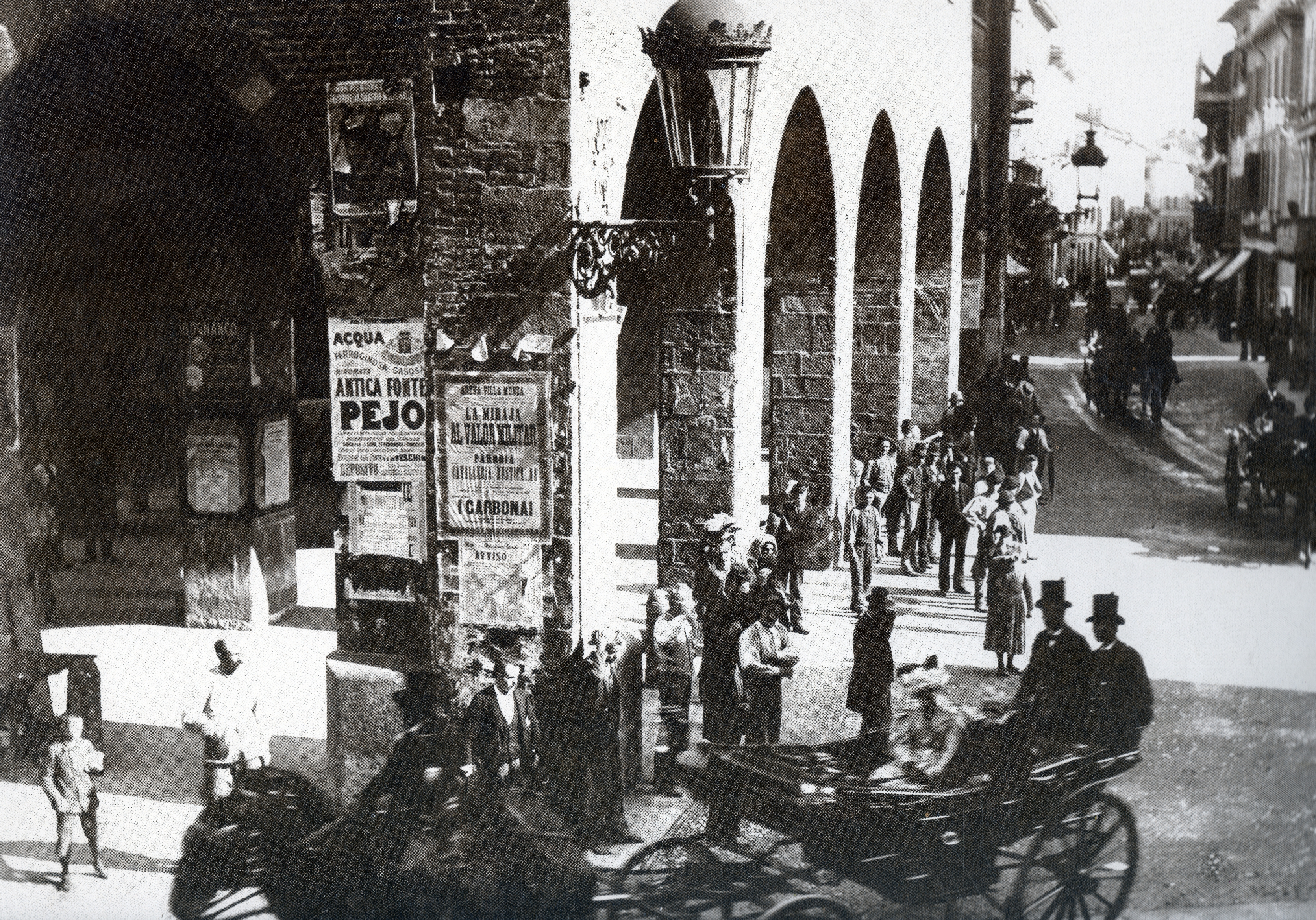 Umberto I of Italy and Margherita of Savoy in a carriage near the Arengario (Monza)